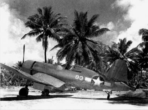 U.S. Marine Corps 1st Lt. Rolland N. Rinabarger of Marine fighter squadron VMF-214 Blacksheep in his Vought F4U-1 Corsair at Espiritu Santo in September 1943. Badly shot up by Japanese Mitsubishi A6M3 Zeros during an early mission to Kahili only two weeks after this photo was taken, Lt. Rinabarger returned to the United States for lengthy treatment. He was still in California (USA) when the Second World War ended. Note the large mud spray on the aft under fuselage.